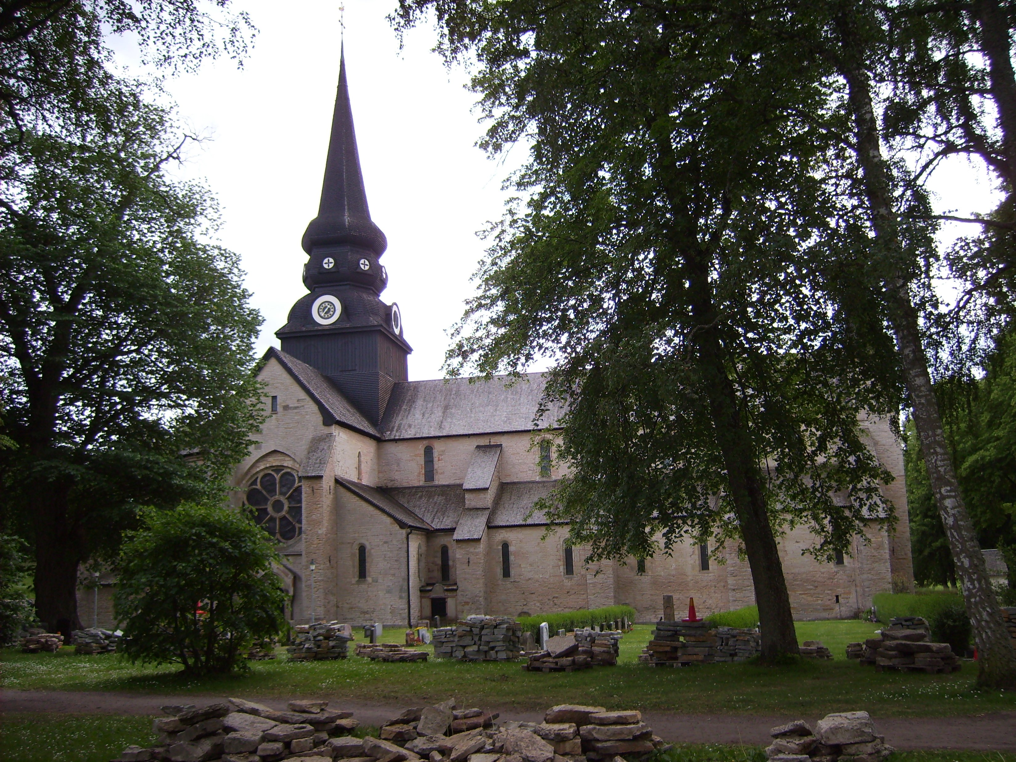 The monastic church Varnhem, convenient in the place Varnhem between the cities Skara and Skövde in the Swedish province Västergötland, is the grave church of the medieval king dynasty Eriks (Knut Eriksson and Erik Knutsson, Erik Eriksson) as well as the master father of the Bjälbo dynasty Birger Jarl and realm chancellor Magnus Gabriel de la Gardie. The monastery Varnhem was created 1150 of Cistercians as a daughter of monastery Alvastra, in the Swedish province Östergötland. The monastic church, originally in Roman style built, was heavily damaged in a fire 1234. It became in early gothic style after the model of the churches of Clairvaux (France) and Marienfeld (Germany) rebuilt. In the centre of the 17th century Swedish realm chancellor Magnus visited de la Gardie, whose county Läckö laid not far from Varnhem, the church. It recognized the value of the church as former royal grave church and let it recondition, since it should accommodate its own burial place (and those family). Between 1918 and 1923 the church was again reconditioned. At the same time the foundation walls of the monastery buildings were excavated. These excavations were taken up to the 1970 years again and are today accessible to the public. Further pieces of find can be visited in the monastery museum beside the church.